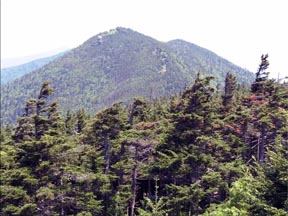 Mount Craig in the Black Mountains Range of western North Carolina, located in Mount Mitchell State Park, just north of landmark Mount Mitchell. habitat